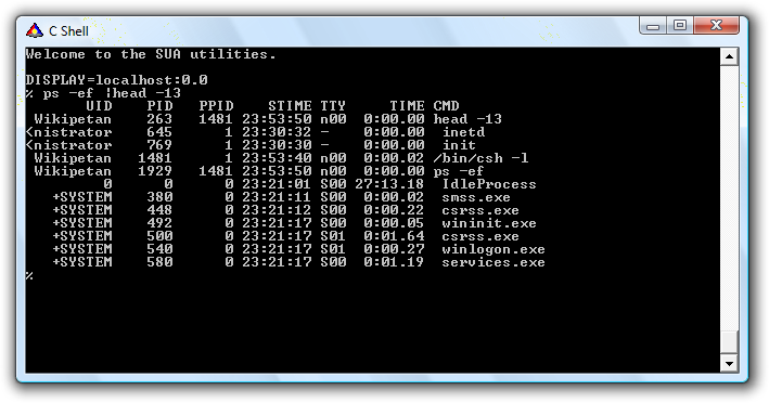 C Shell running on Subsystem for UNIX-based Applications on Windows Vista